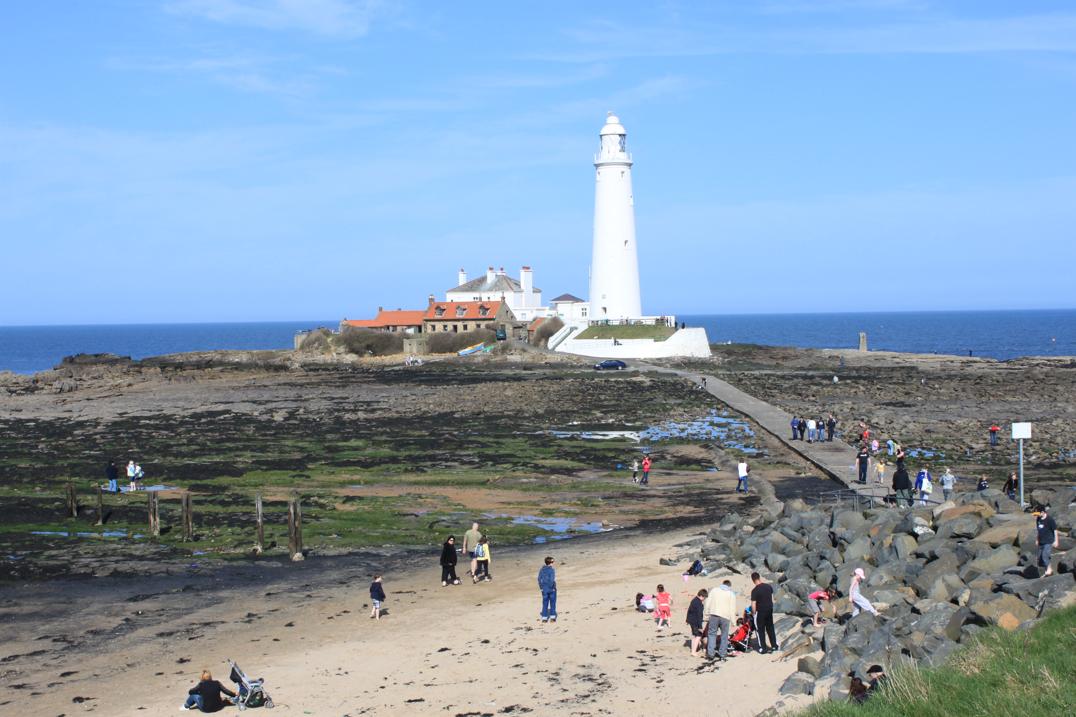 St Marys Lighthouse view from mainland on Apr 2011